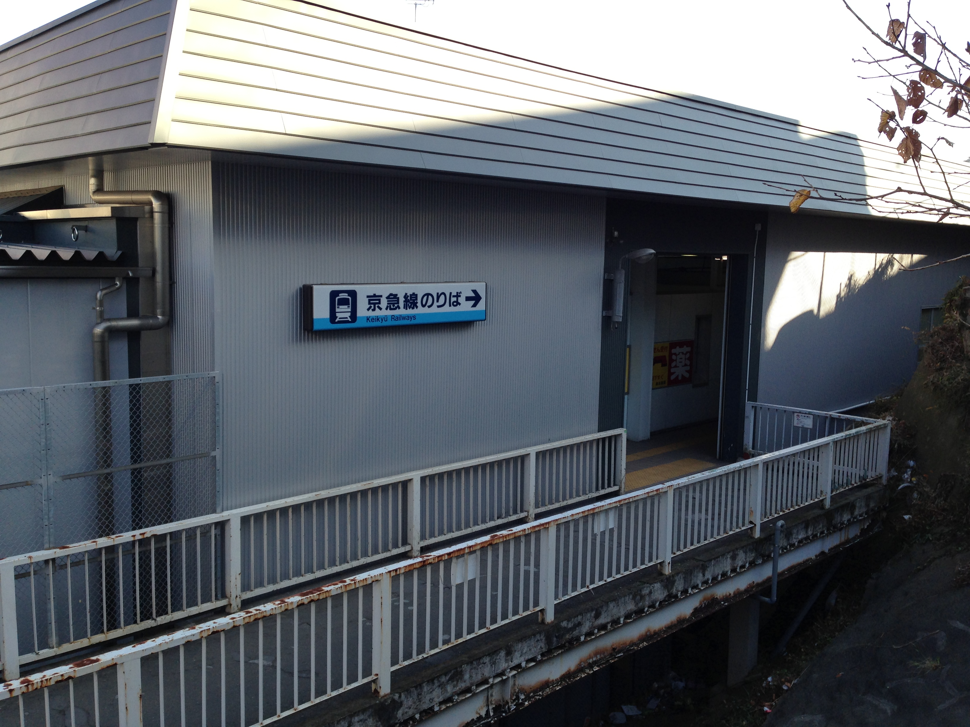 Oppama station west gate